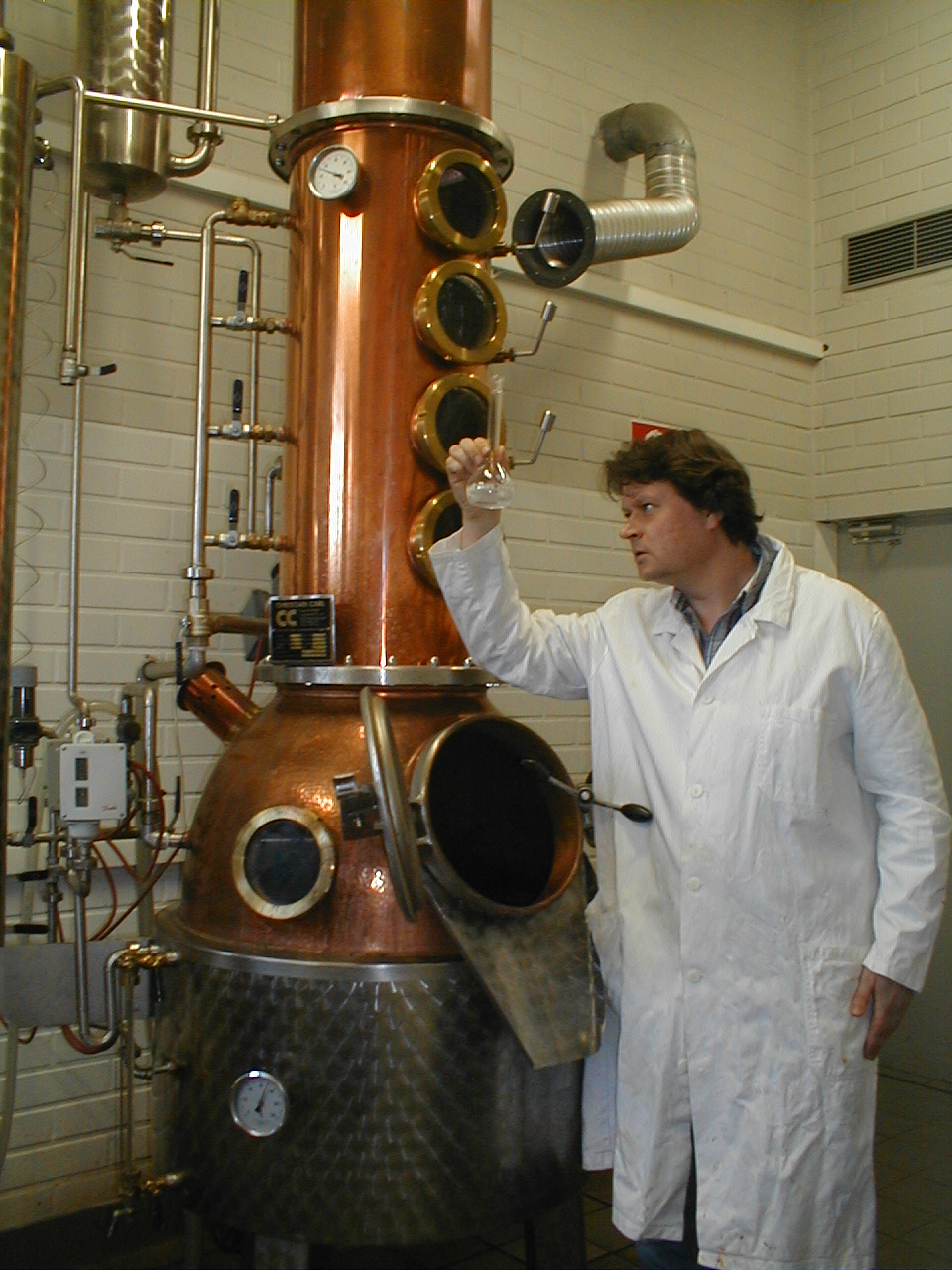 Wine processing with distilator machinery